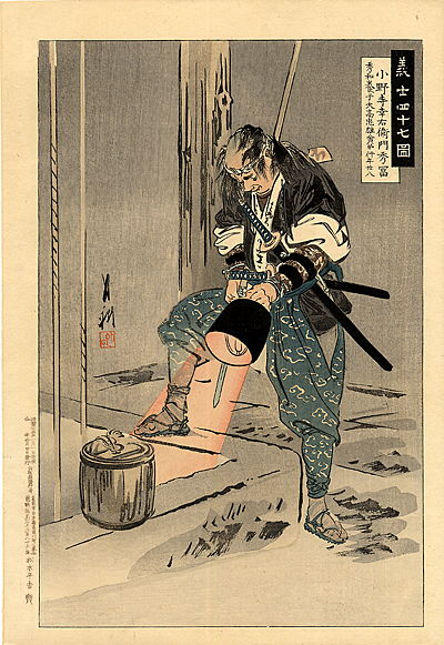 Ronin are masterless samurai. Chushingura is the true story of 47 samurai who became masterless in 1701, after their lord had been forced to commit ritual suicide (seppuku) for assaulting a court official who had insulted him. They avenged him by killing the court official after patiently planning for over a year. They were themselves then forced to commit seppuku.